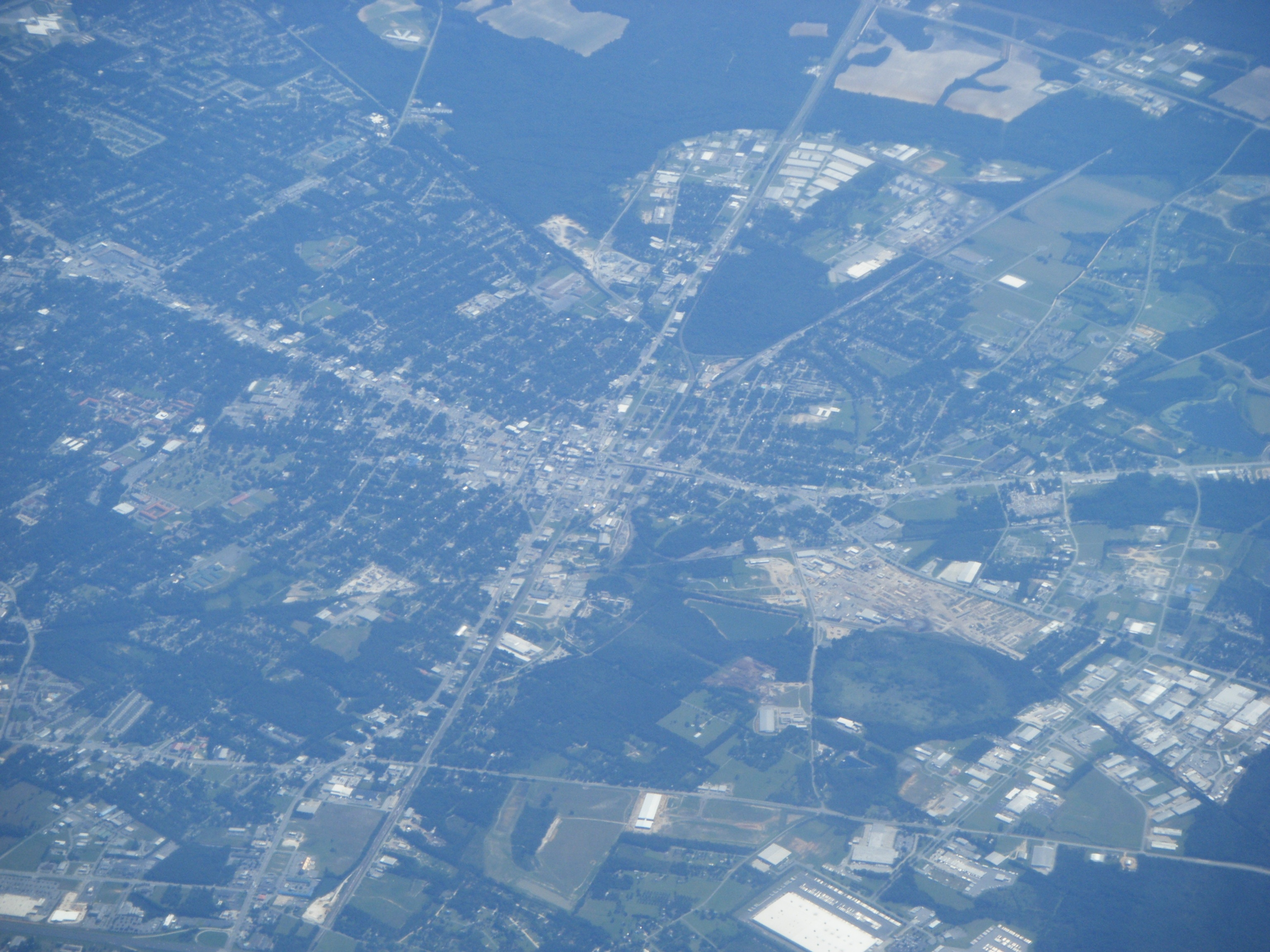 A view of Valdosta, Georgia taken from an airplane